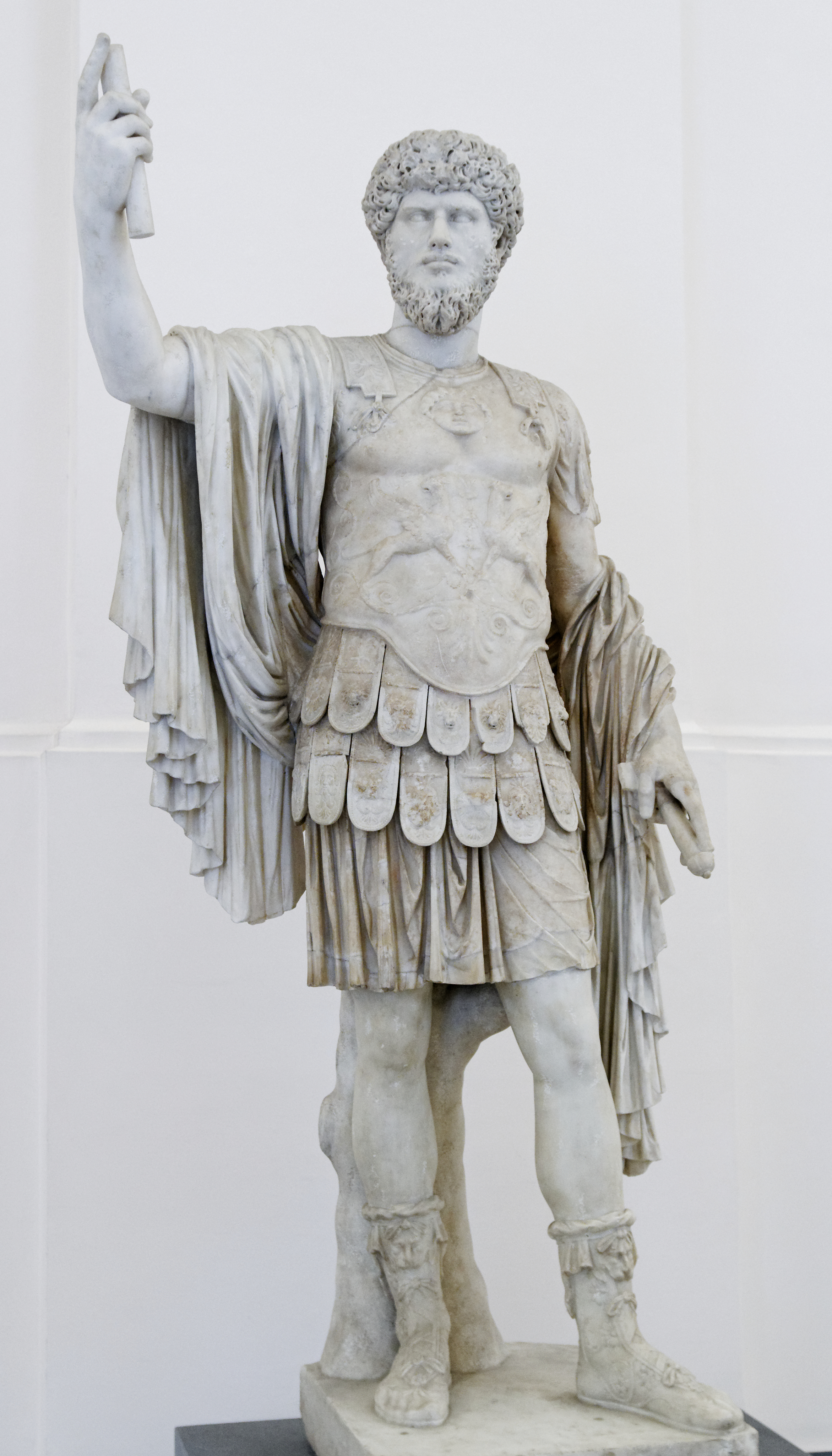 Head of Lucius Verus mounted on an unrelated cuirassed statue. Roman artwork.